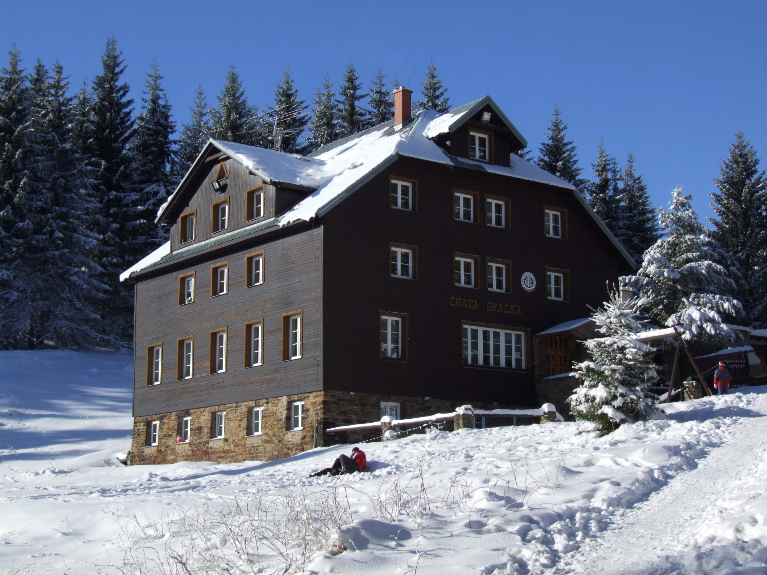 Chata Skalka mountain hostel, Moravian-Silesian Beskids Ślůnski: Turystyczne schrůńisko Chata Skalka, Ślůnsko-Morawski Beskid, Czesko Rypublika